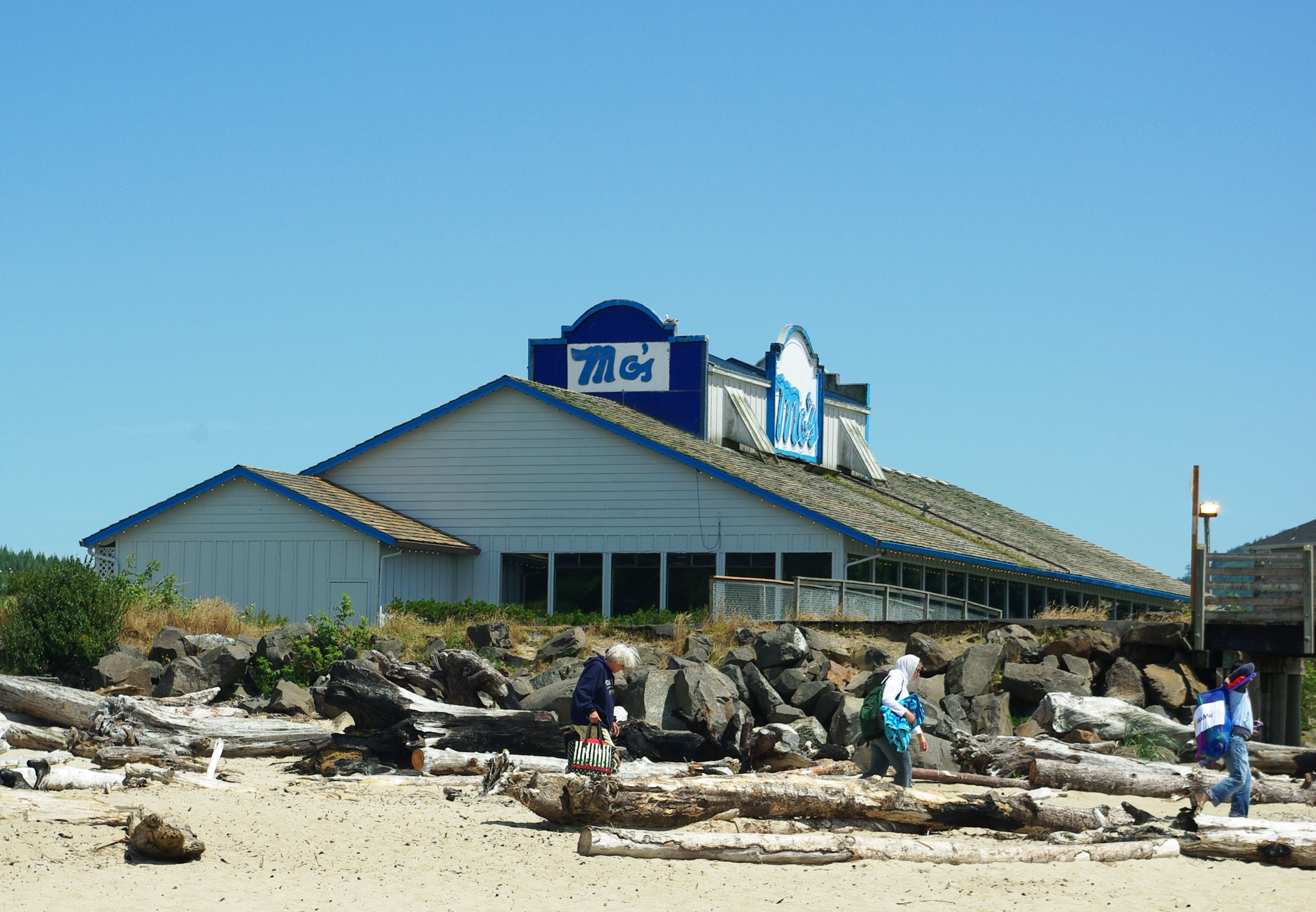 Mo's Restaurants location in Lincoln City, Oregon, USA.